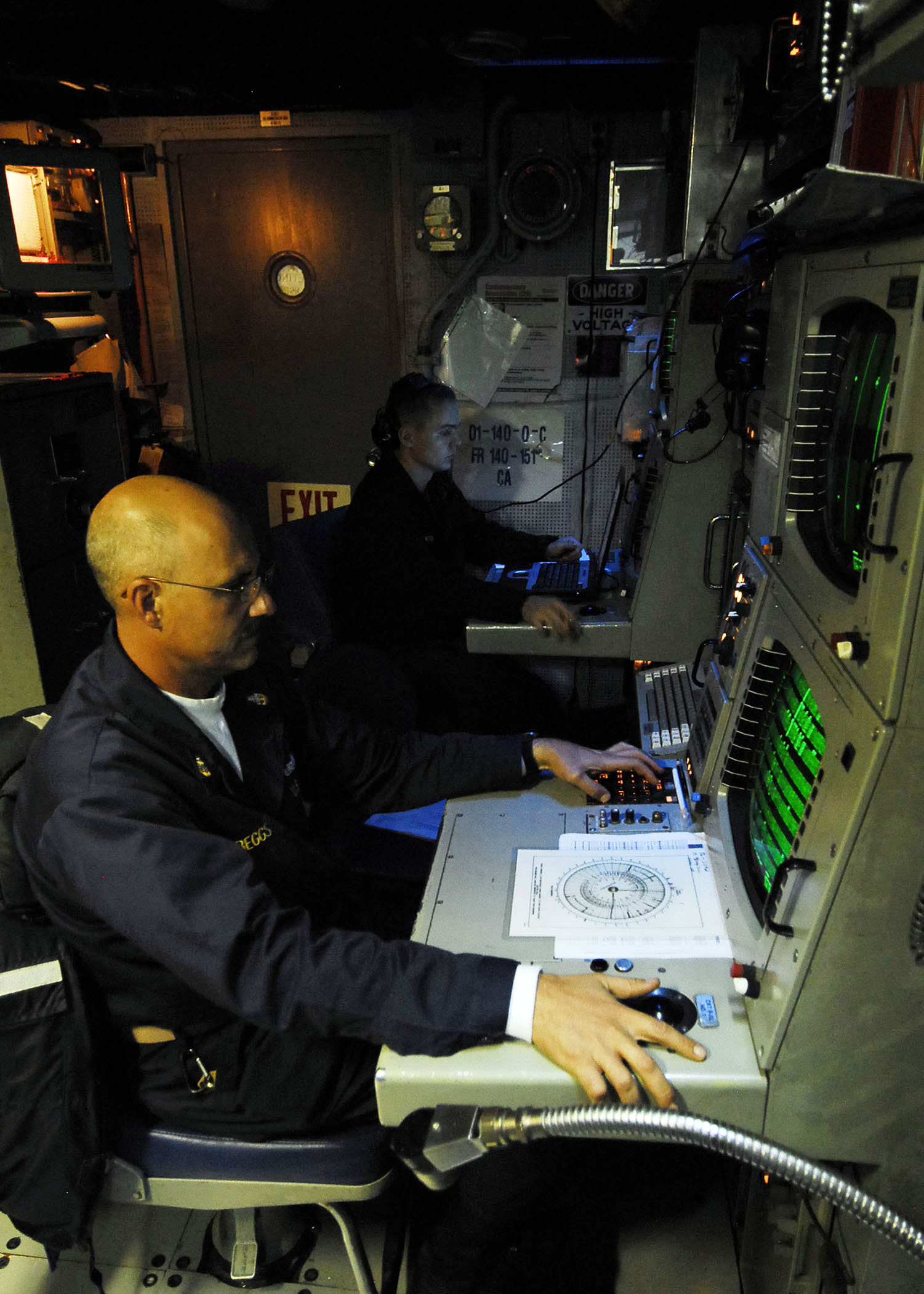 PACIFIC OCEAN (June 16, 2009) Senior Chief Sonar Technician Surface Anthony Beggs, left, and STG3 Joshua Colantuano monitor data from the tactical towed array sonar aboard the guided-missile frigate USS Kauffman (FFG 59) during anti-submarine exercises with the Peruvian Navy. Kauffman is deployed with Southern Seas 2009, part of the U.S. Southern Command-led Partnership of the Americas mission focusing on strengthening relationship in the Southern Command area of Focus. (U.S. Navy photo by Mass Communication Specialist 2nd Class Brandon Shelander/Released)